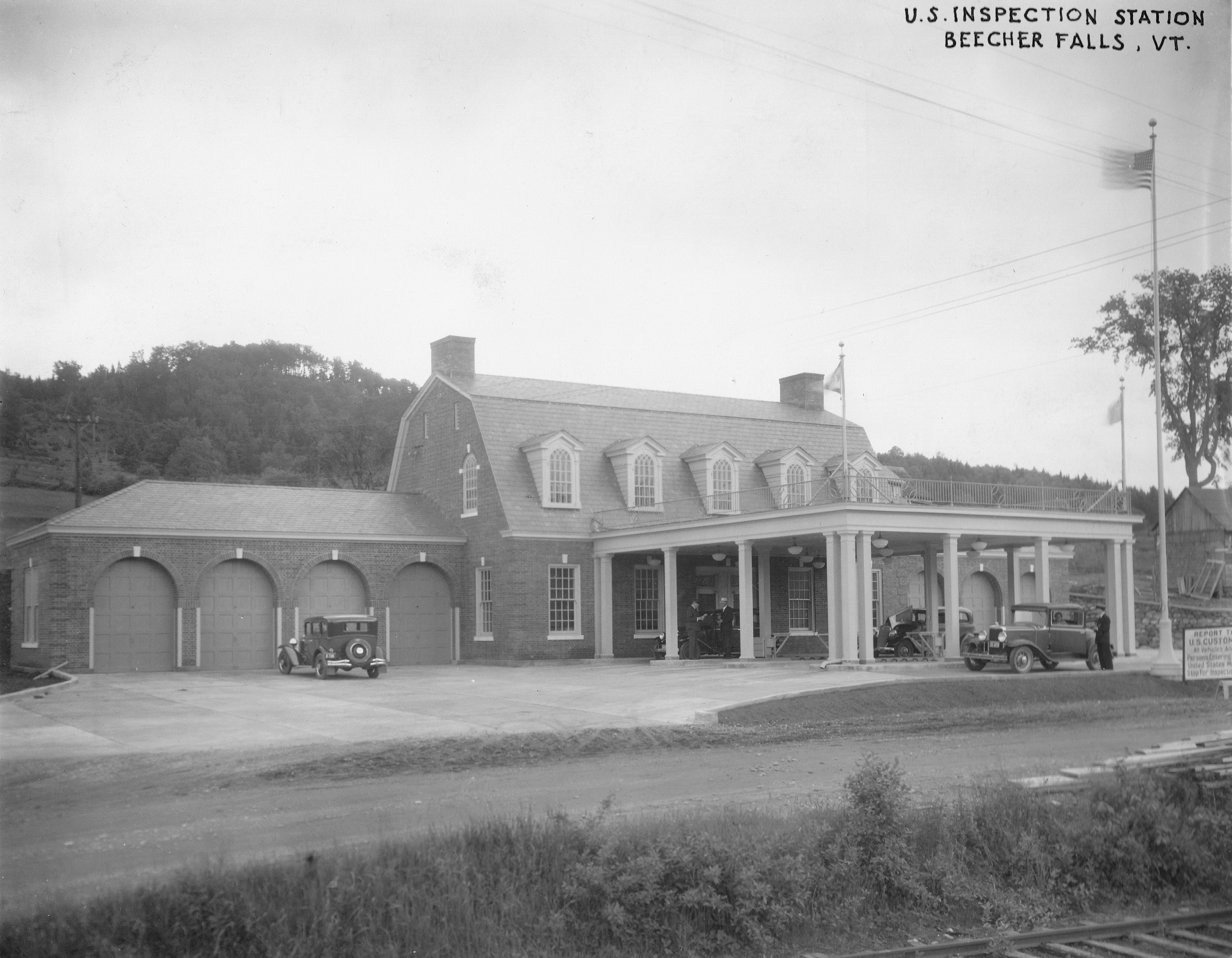 Completion photograph of the Beecher Falls, VT border station, taken in 1933 Other information Completion Photographs of Federal Buildings, 1900 - 1967 National Archives Identifier:532298 Local Identifier:121-BS